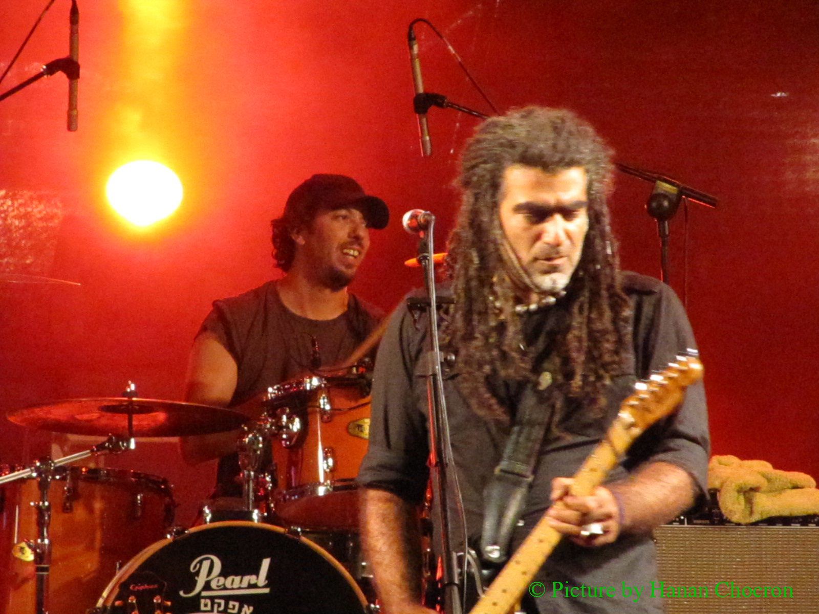 mosh ben ari - show in jerusalem